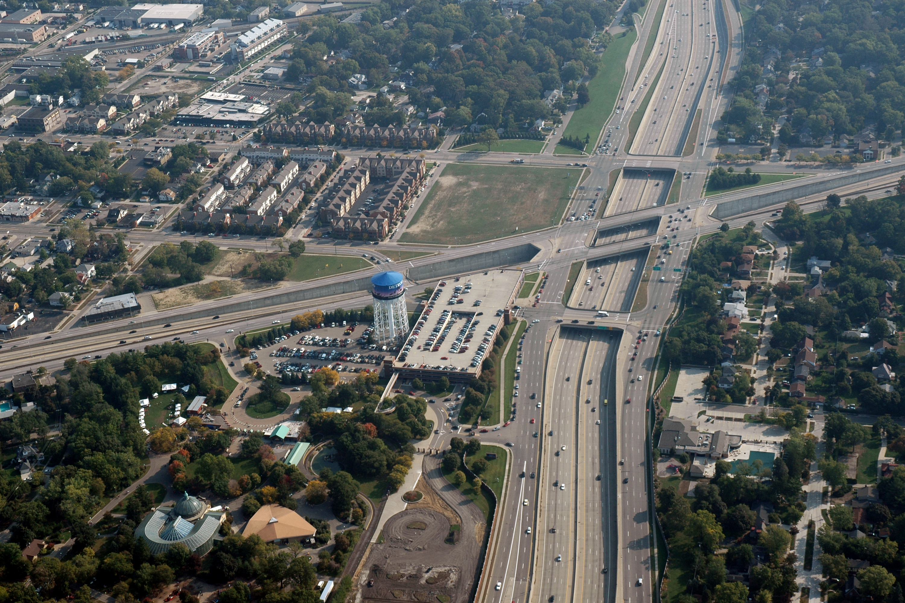 Royal Oak, Huntington Woods, Pleasant Ridge, Detroit Zoo and PR Rec Center in foreground